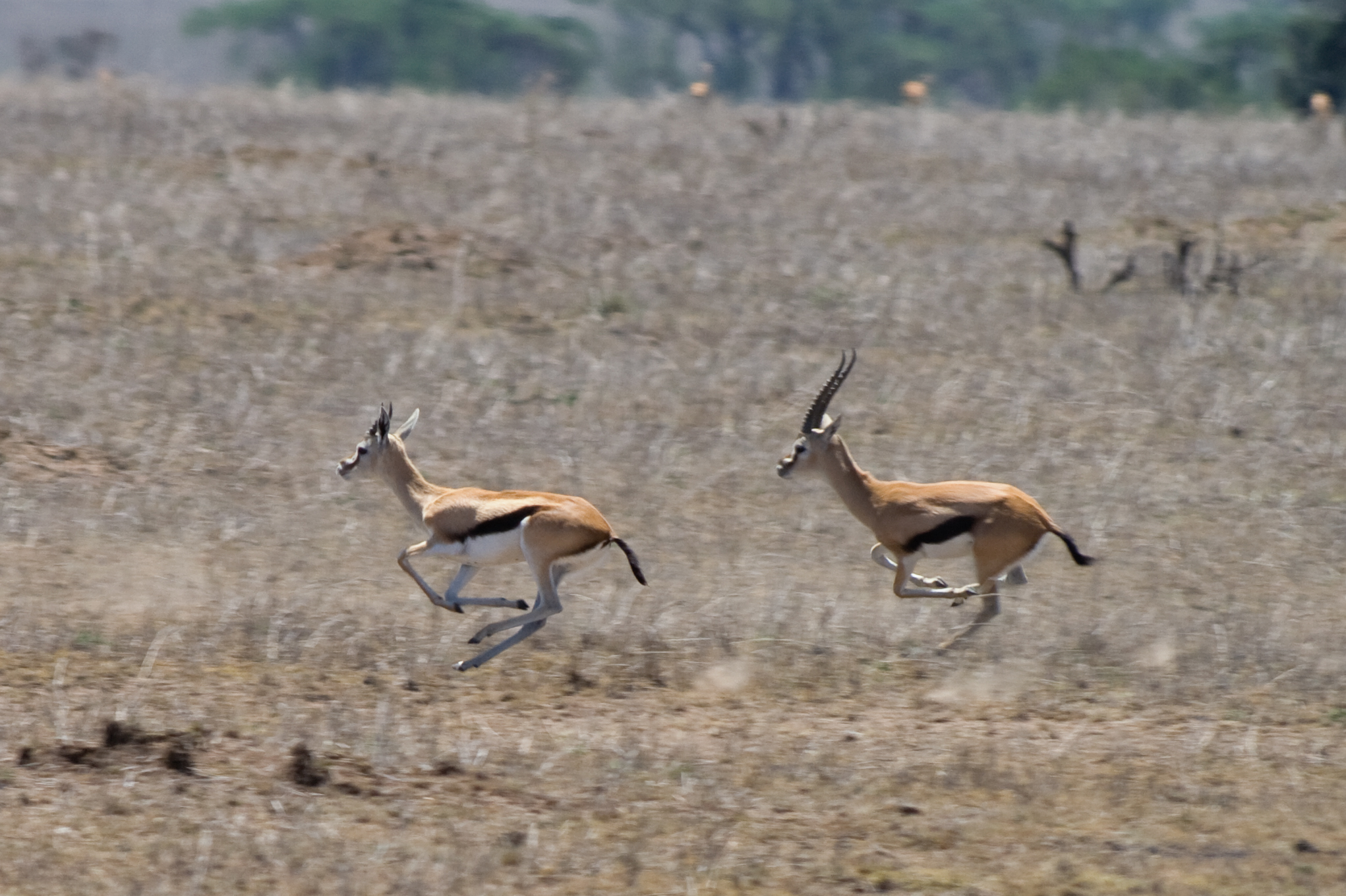 Two Thomson's Gazelles (Eudorcas thomsoni) in Serengeti, Tanzania.